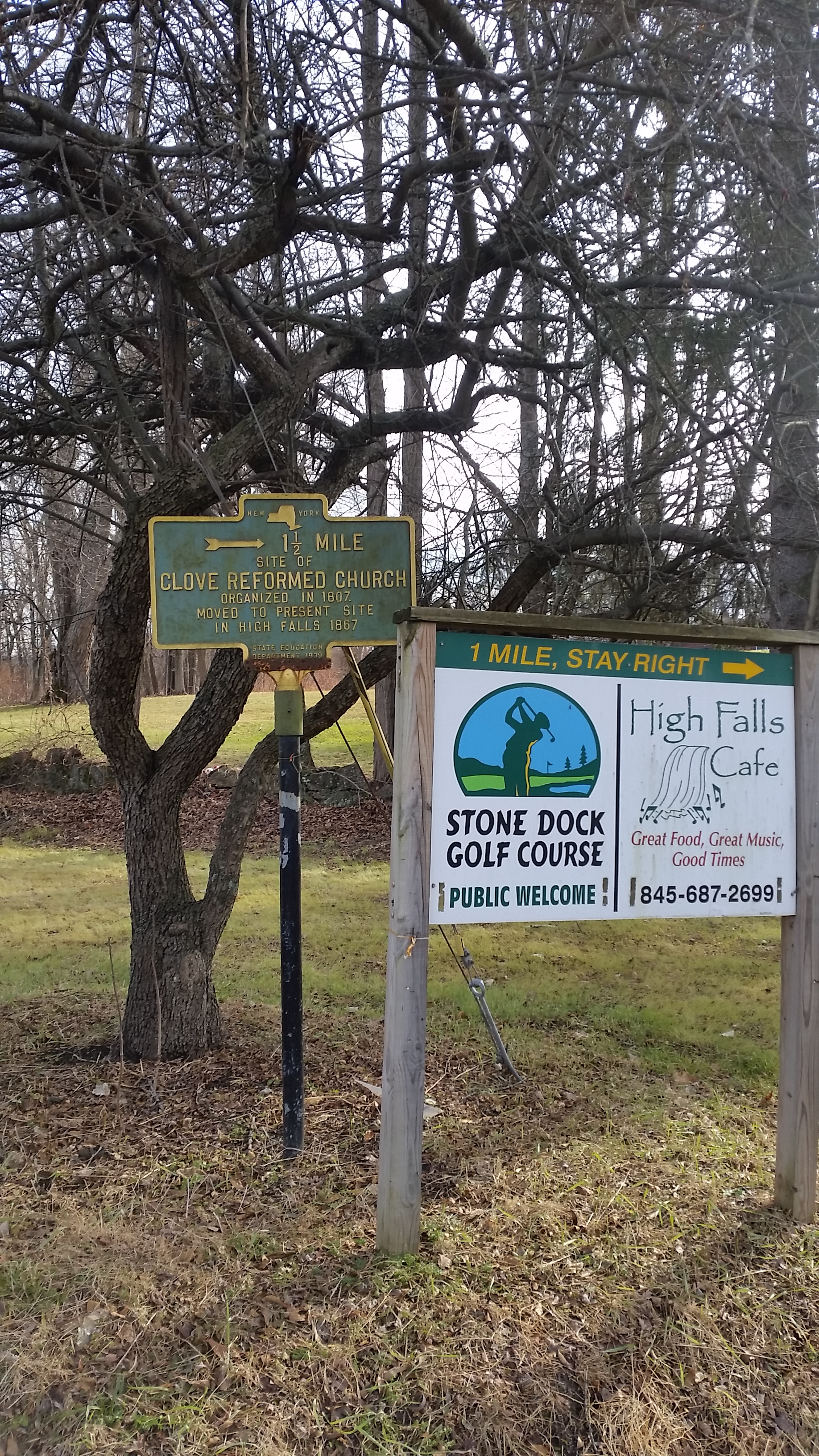 New York State historical marker for the Clove Reformed Church